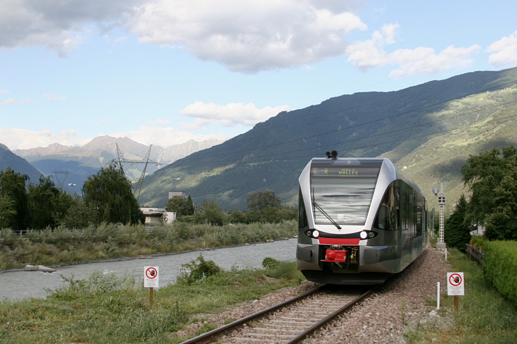 Vinschgaubahn railcar running along Etsch river near Naturns.